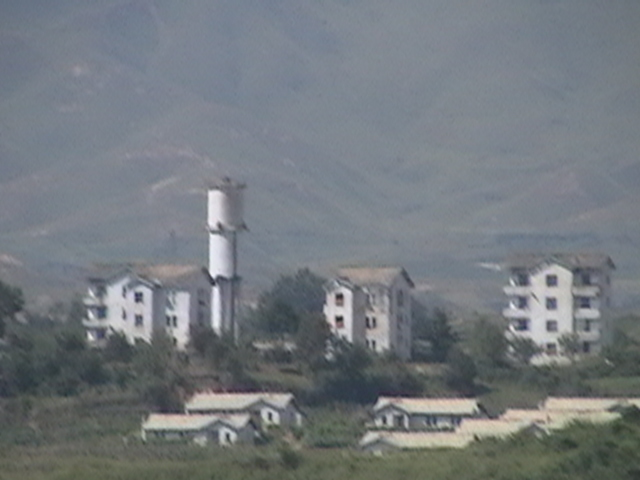 View on Kijong-dong village in the Demilitarized zone in Northern Korea